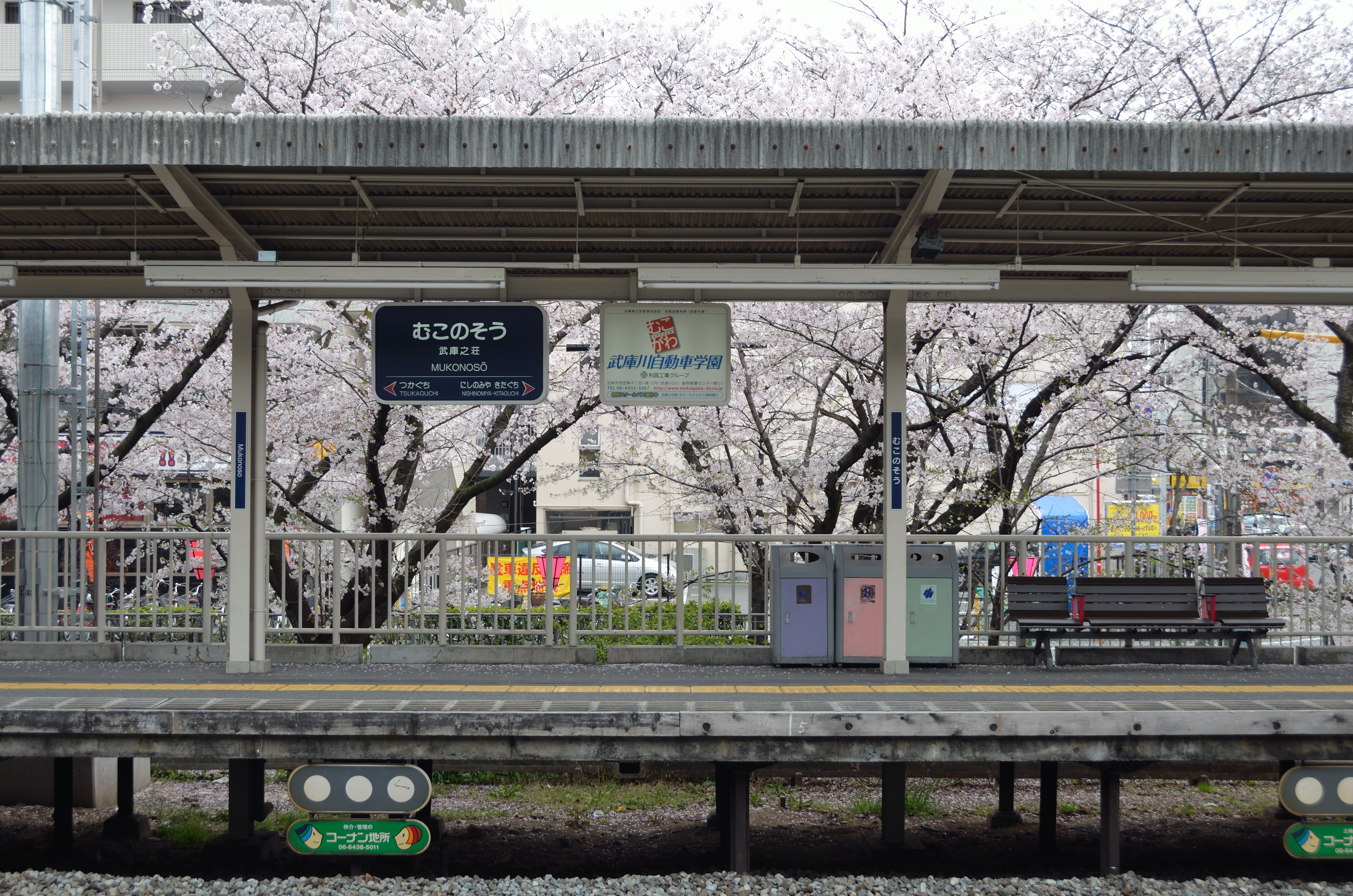 Cherry blossom 2011 武庫之荘駅